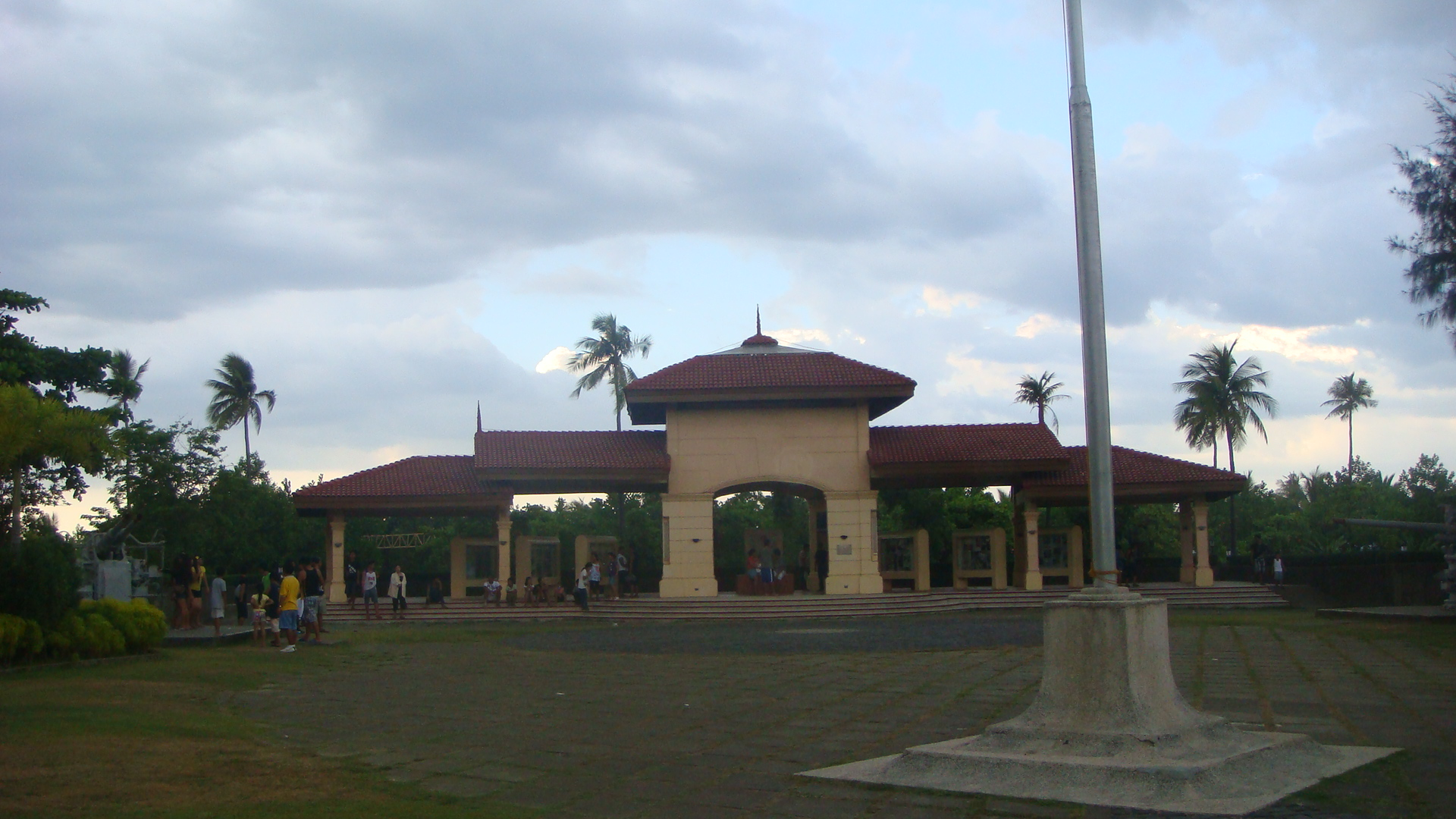 World War II Memorabilia Ground Site, Town Park and the Capitol Grounds